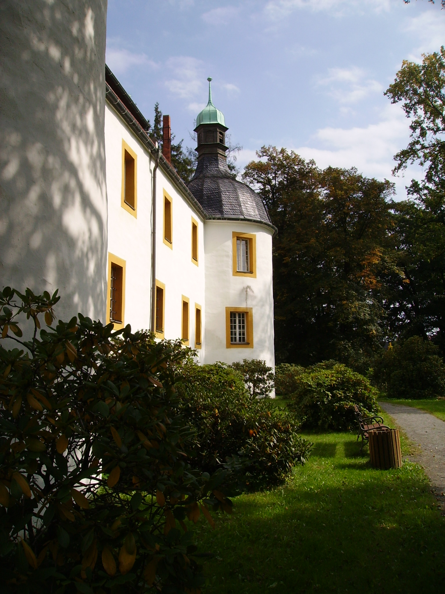 Tower of Sallgast Castle, Brandenburg, Germany